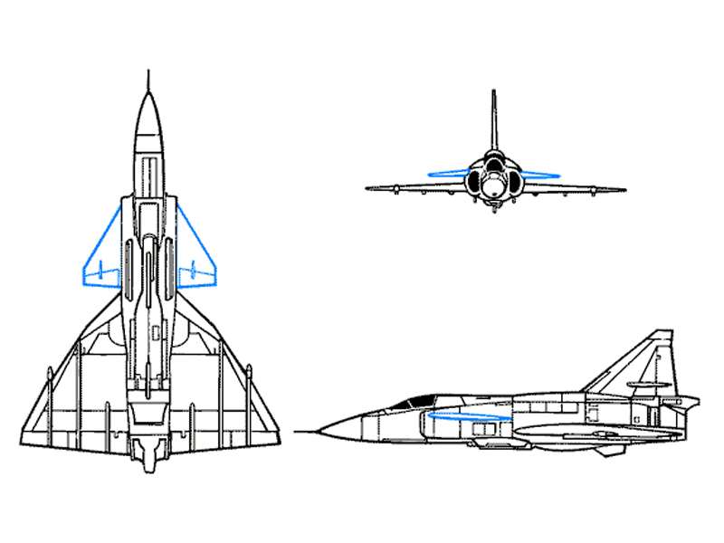 Saab Viggen drawlines with blue colored canards